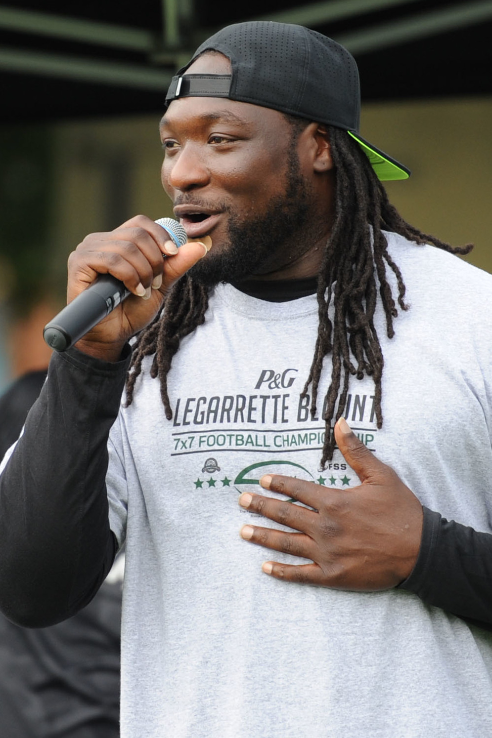 LeGarrette Blount, Philadelphia Eagles National Football League running back, delivers welcoming remarks during the P&G LeGarrette Blount 7x7 Football Championship July 8, 2017, on Keesler Air Force Base, Miss. Blount hosted the two-day camp consisting of 10 flag football teams from Keesler and the local community to promote the importance of living an active and healthy lifestyle.